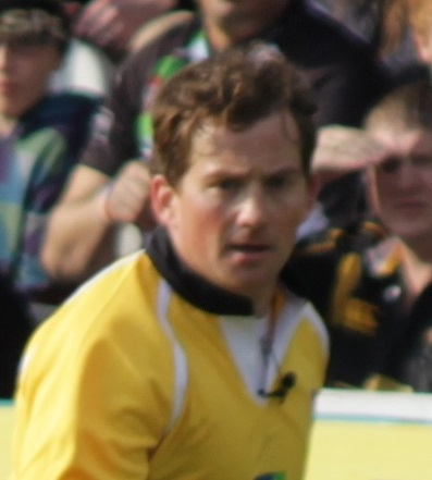 JP Doyle officiating the game between Harlequins and London Wasps in 2012